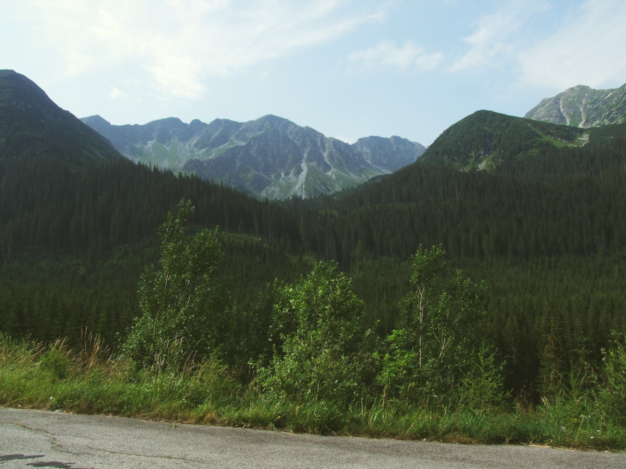 Roháčska Dolina (West Tatra Mountains), pl. Dolina Rohacka